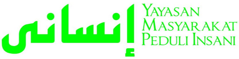 Yayasan Masyarakat Peduli Insani